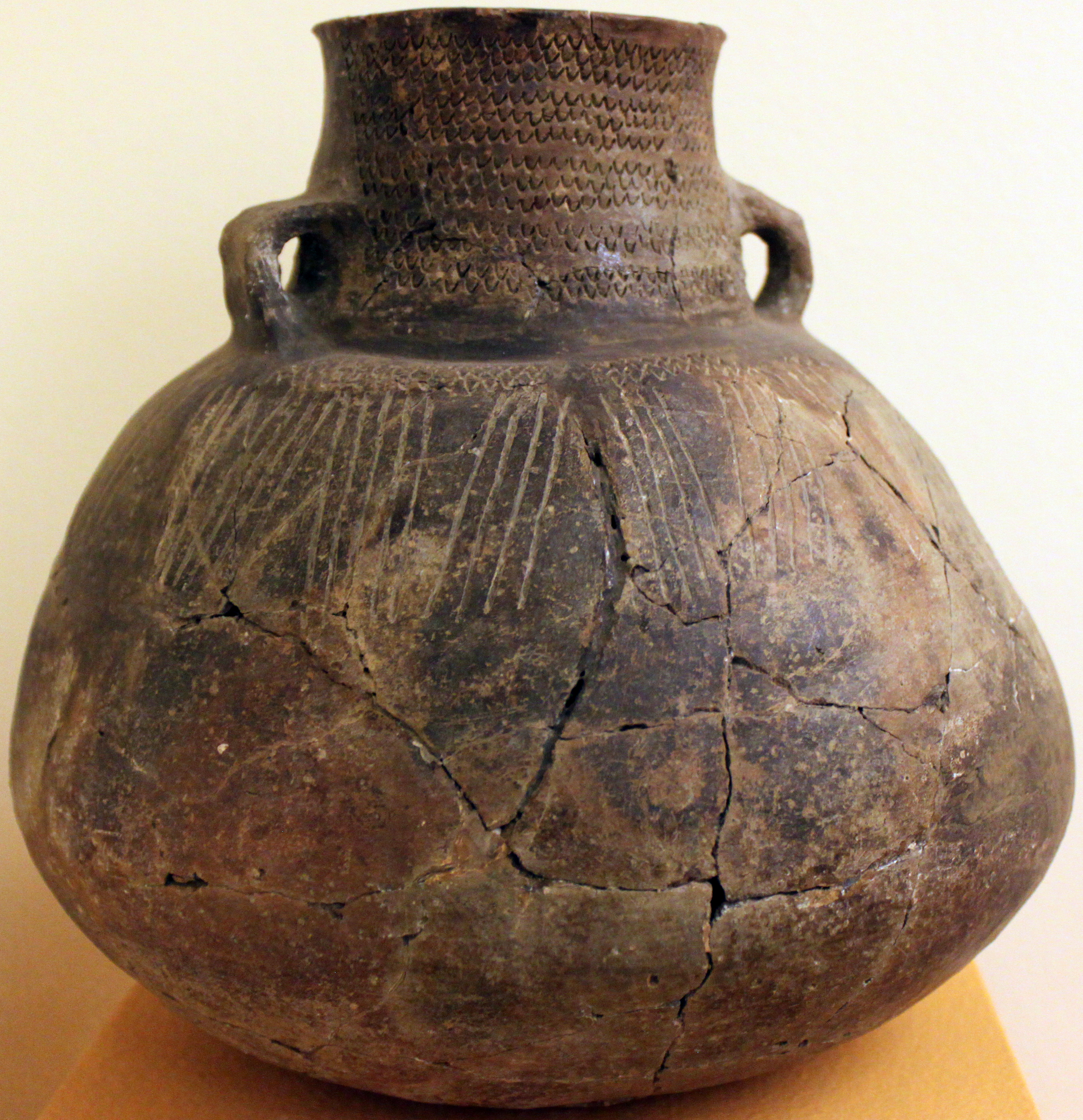 Amphora of the Spheric-Amphora-Period (3100-2700 BC), discovered in 1979 during excavation works at the castle Friedrichsfelde, now shown at Märkisches Museum Berlin